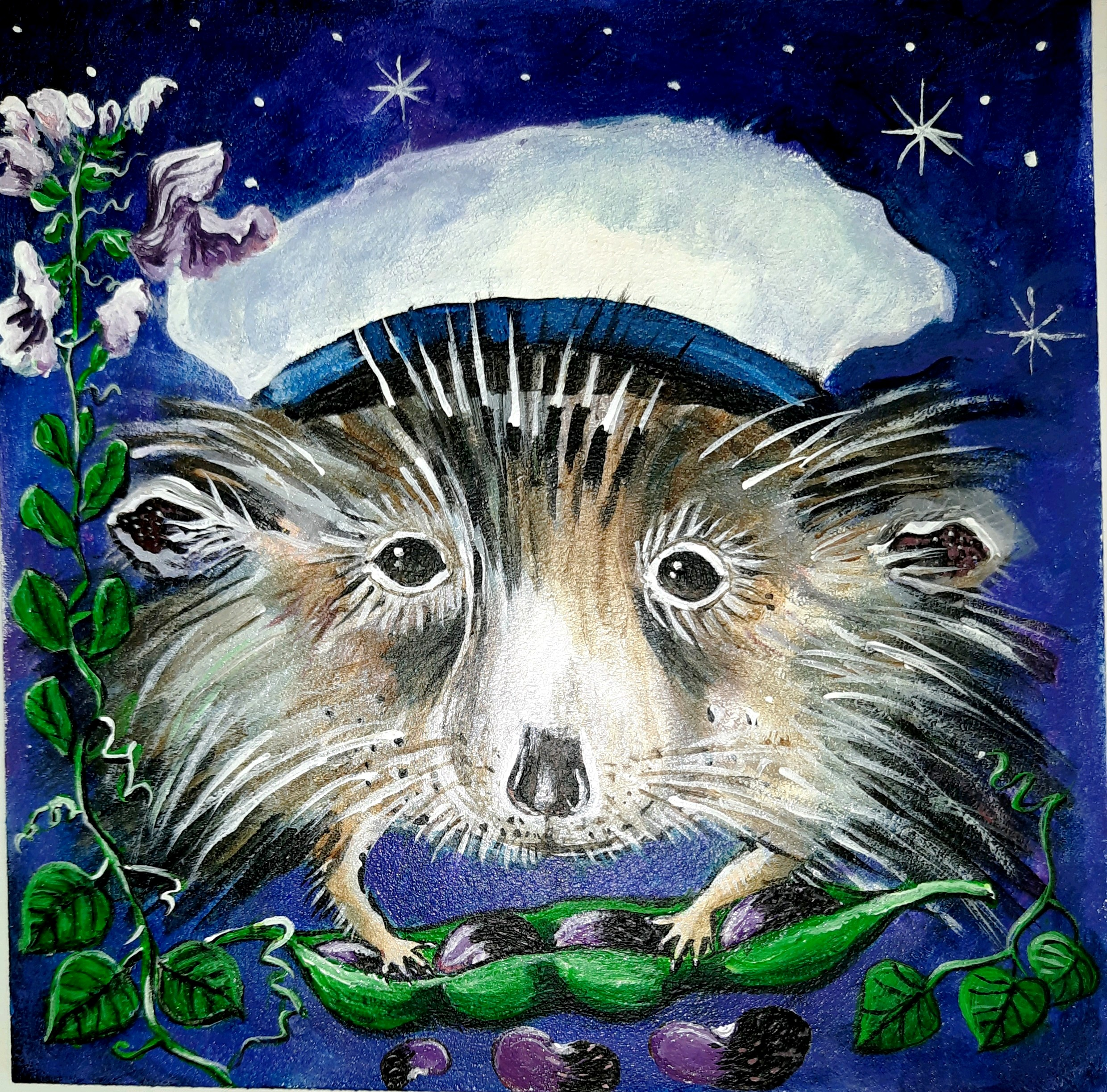 Ernest the hedgehog book